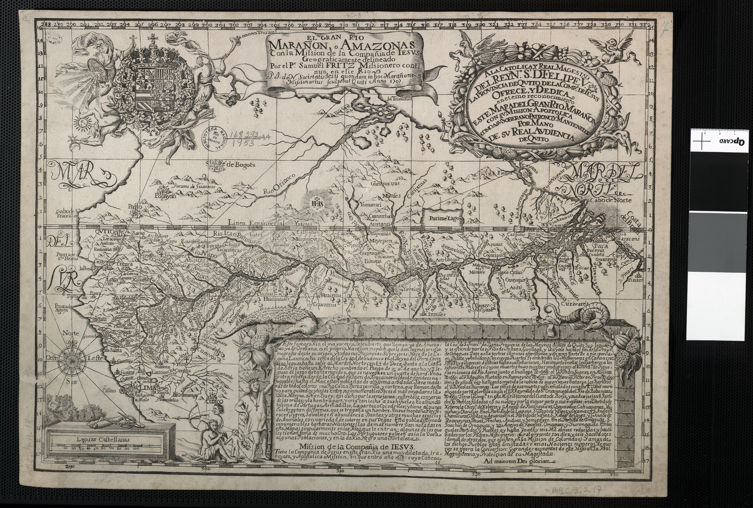 This map of the Amazon River is by Samuel Fritz (1654-1728), a Jesuit missionary who mapped the basin of the Amazon River. Born in the province of Bohemia (now part of the Czech Republic), Fritz became a priest in 1673. He was sent to Quito in present-day Ecuador as a missionary in 1684 and spent the next 40 years ministering to the native people of the Upper Marañon region. He began mapping the region as part of a project to clarify the borders of missionary lands, Spanish lands, and Portuguese lands. He later undertook a project to chart the course of the Amazon. Despite having no training as a cartographer and using only very primitive instruments, Fritz completed a relatively accurate chart of the area. He was the first to follow the Marañon, a tributary of the Amazon, to its source. This map was first printed in Quito in 1707 and later extensively copied in Europe. Amazon River; Cartography; Jesuits